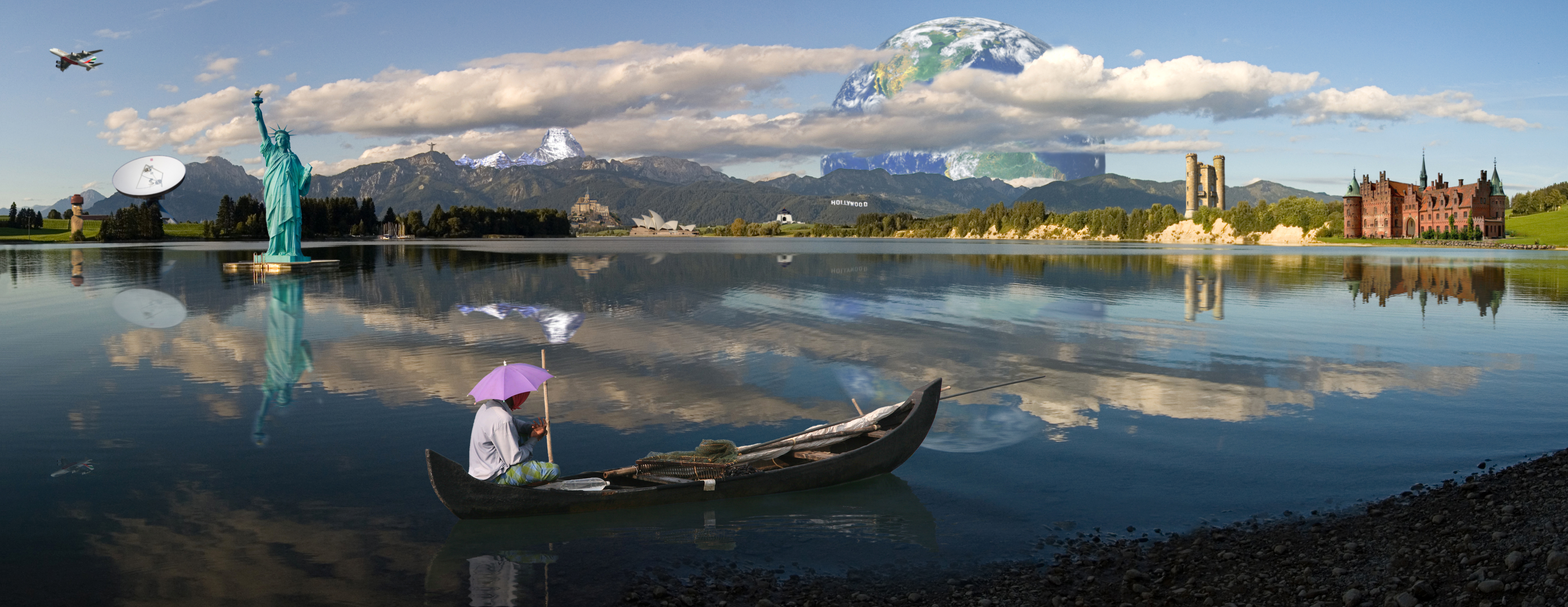 Photomontage - Composite of 16 different photos which have been digitally manipulated to give the impression that it is a real landscape. Software used: Adobe Photoshop